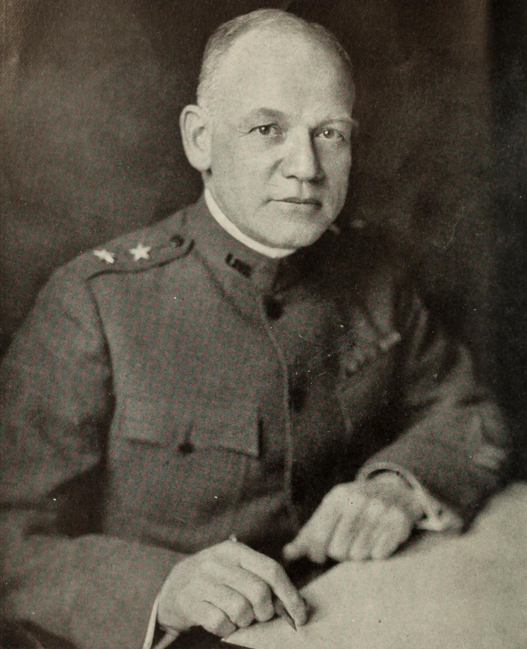 Portrait of Charles T. Menoher